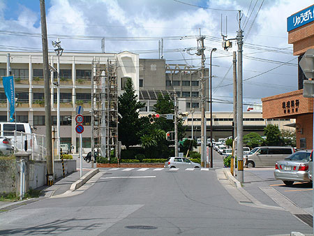 Makiminato Intersection